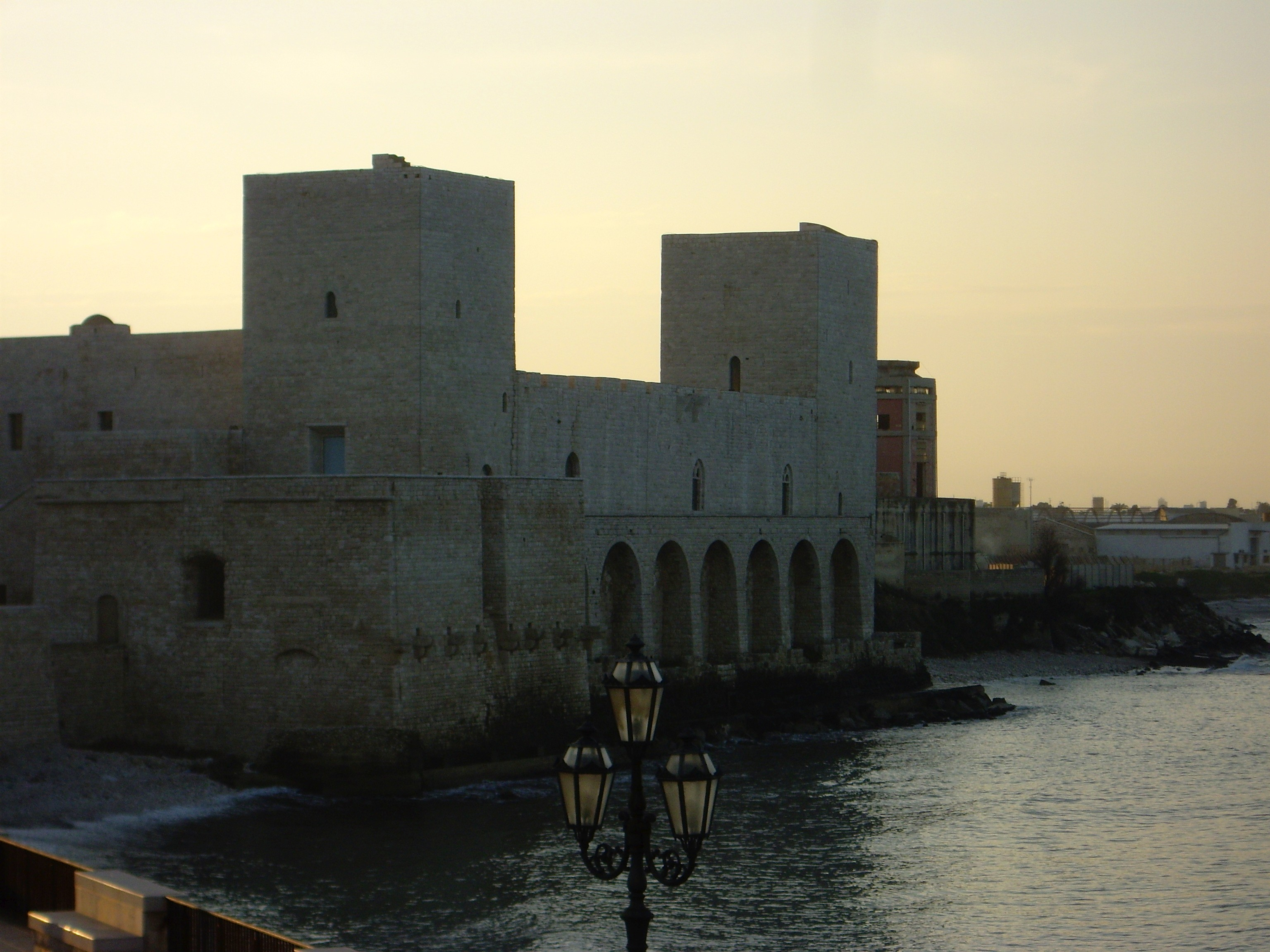 Castle of Trani, north sideEsperanto: La kastelo de Trani en italio, norda flanko